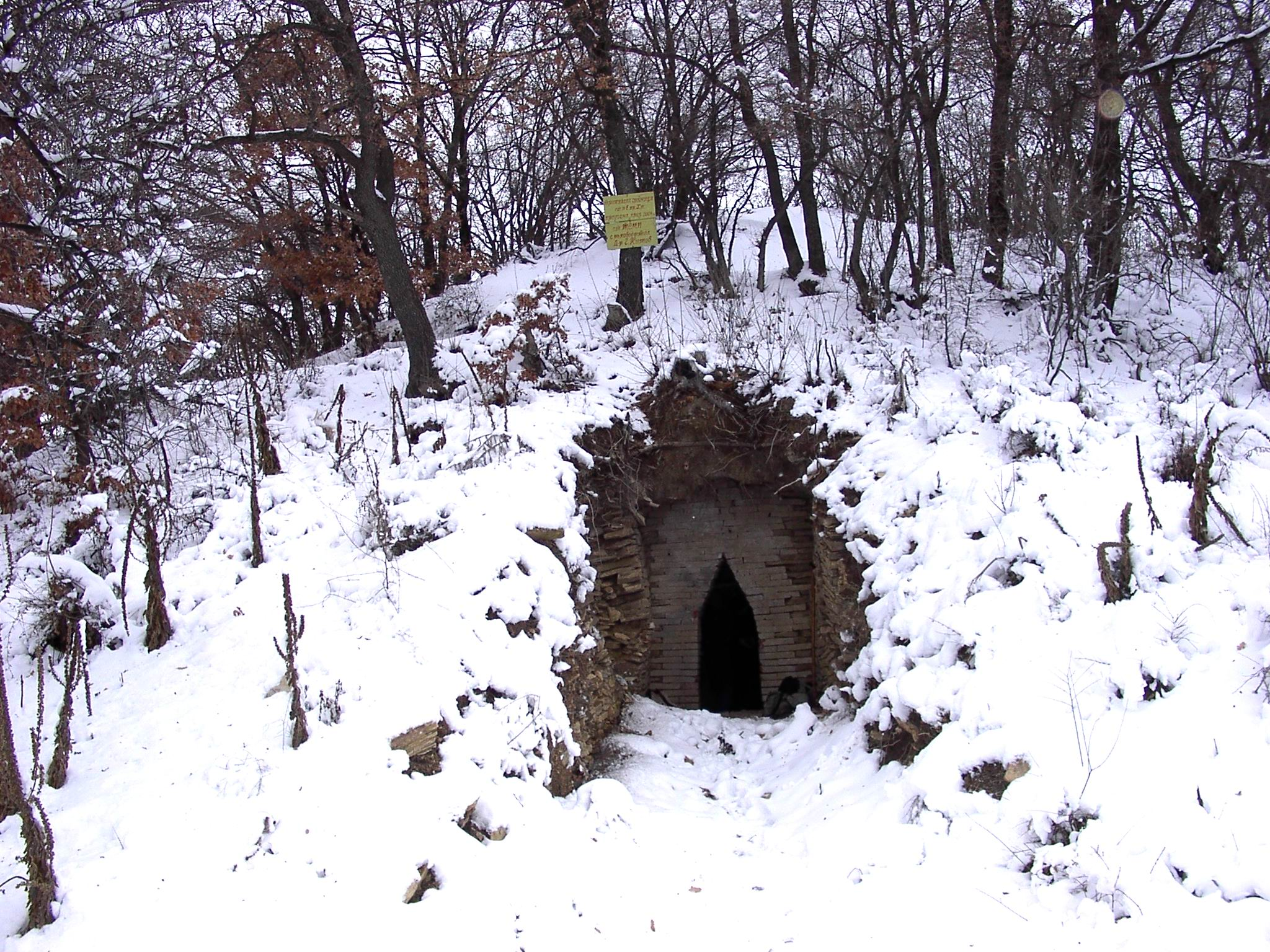 Oriahovica.trak.mogila.01